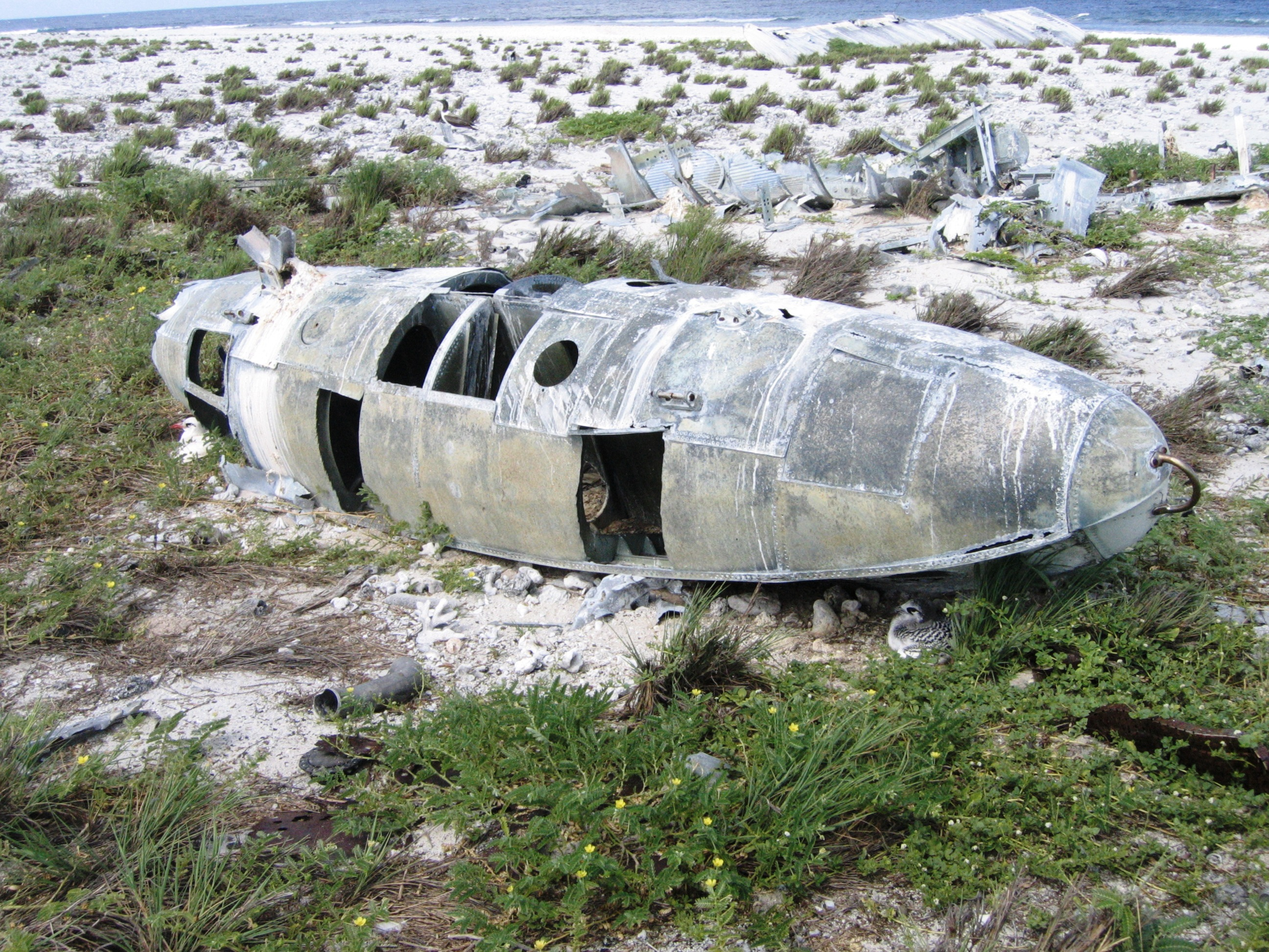 Wreckage from a U.S. Navy Martin PBM-3D Mariner flying boat (BuNo 48199) of Patrol Squadron 16 (VP-16) on Howland Island [1]. The aircraft made a forced landing at Howland Island on 10 June 1944 due to engine failure. All crew members survived the crash and were rescued by the crew of the USCGC Balsam (WLB-62).